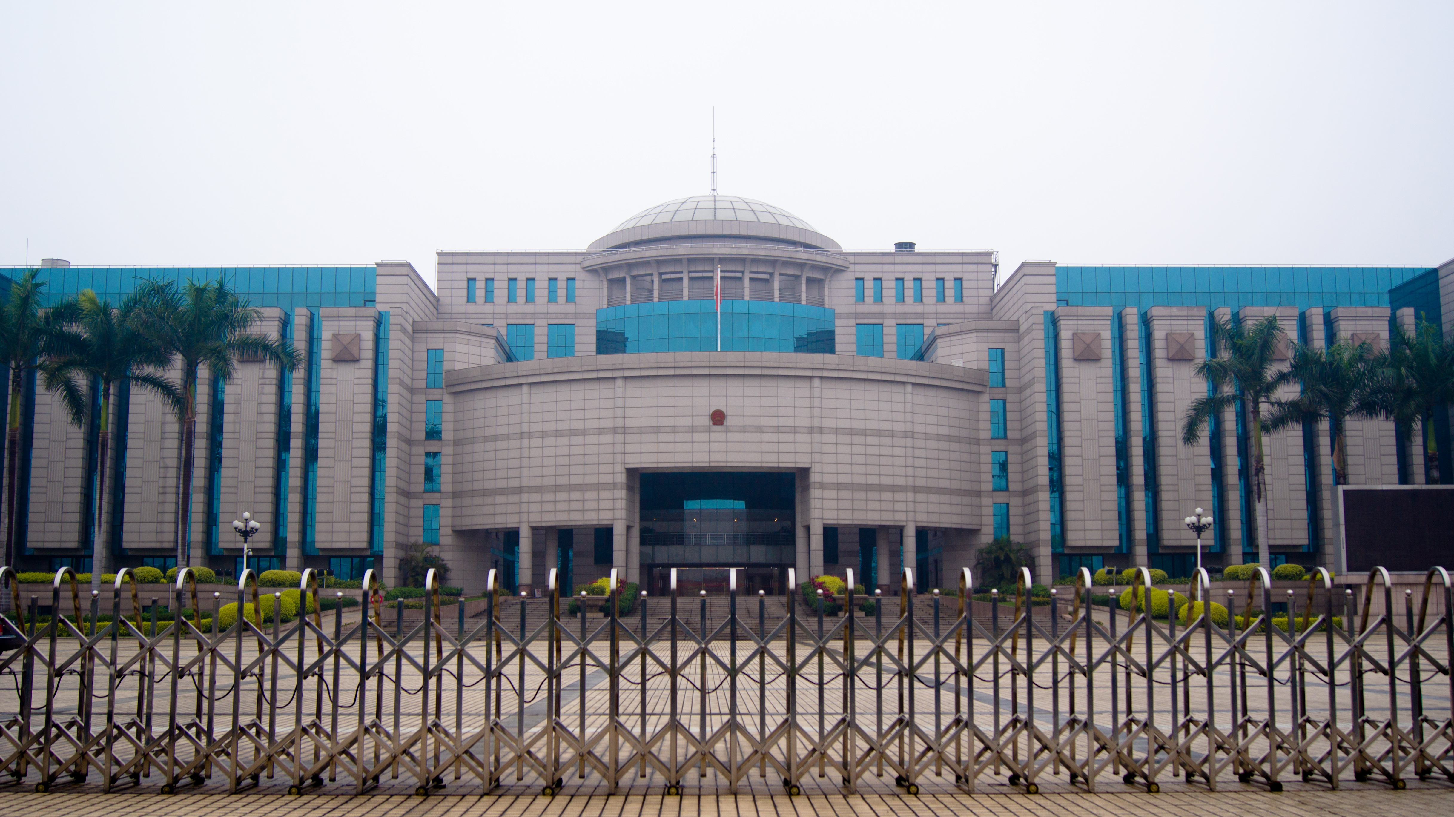 People's Government of Dali, Nanhai District, Foshan.